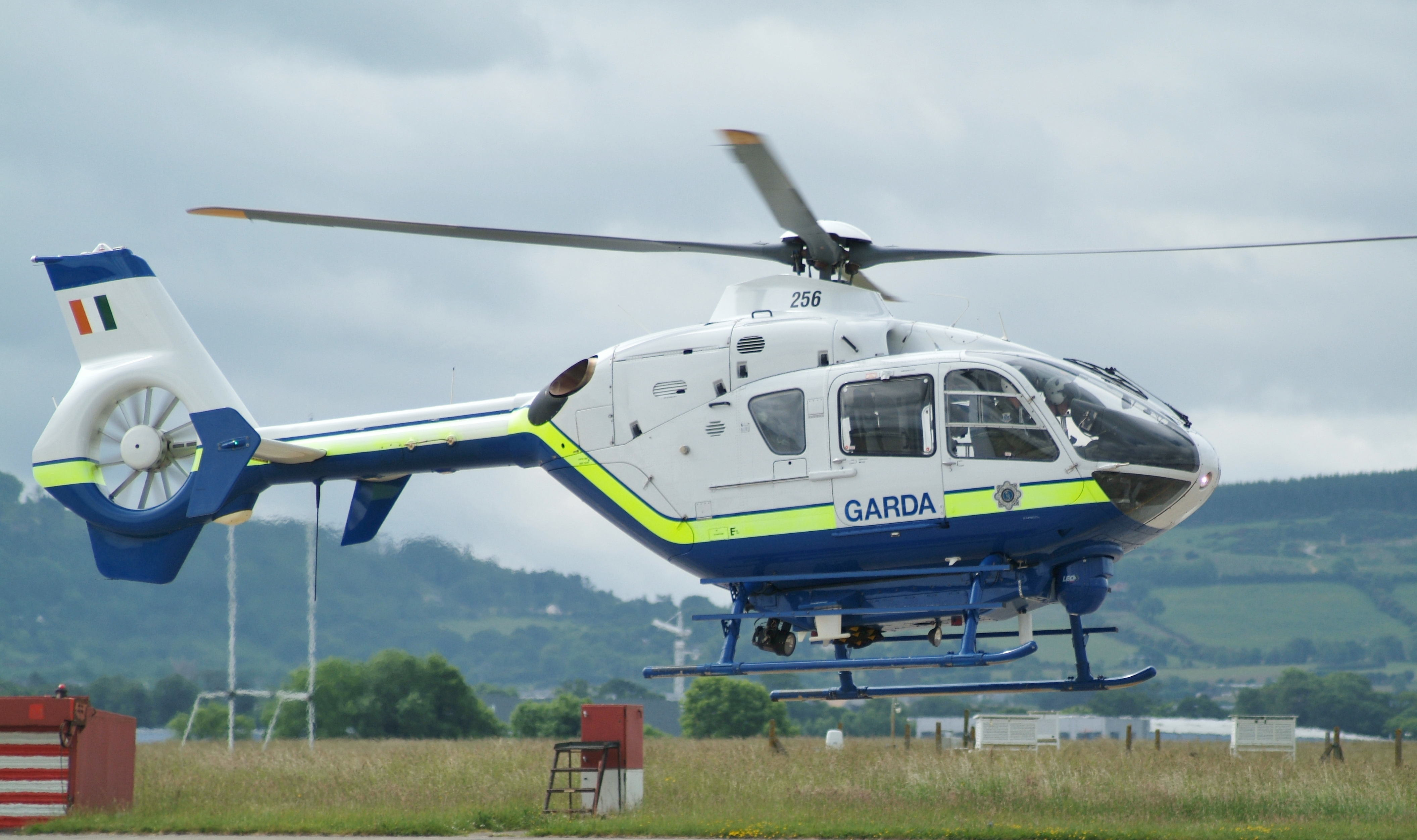 Eurocopter EC.135T.2 Garda Air Support Unit / 106 Sqdn; Republic of Ireland, Baldonnell